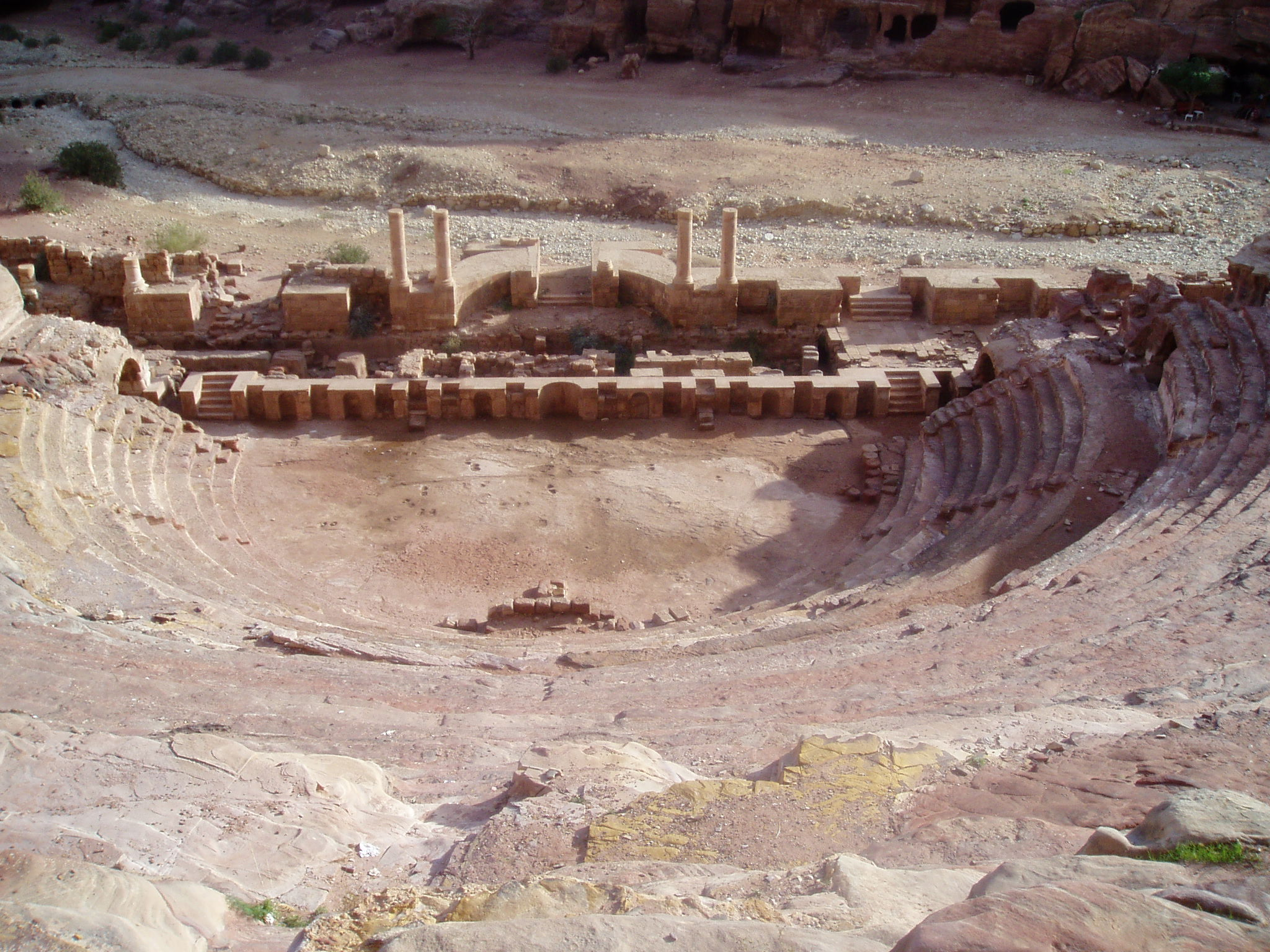 Roman theatre in Petra, Jordan.